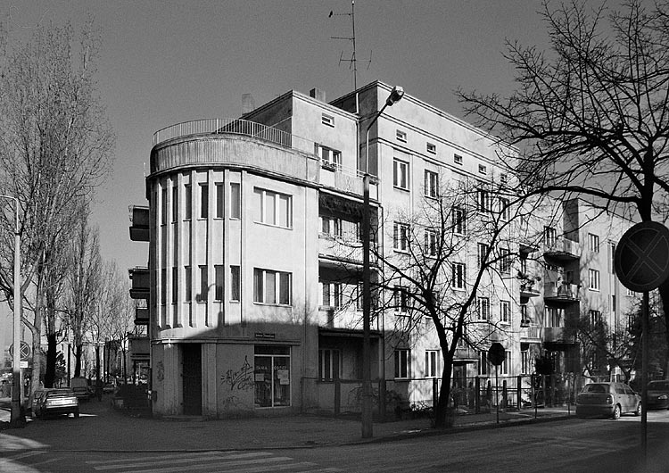 Toruń, House at corner of Slowackiego and Matejki Str., designed by B. Jezierski, built 1937-38